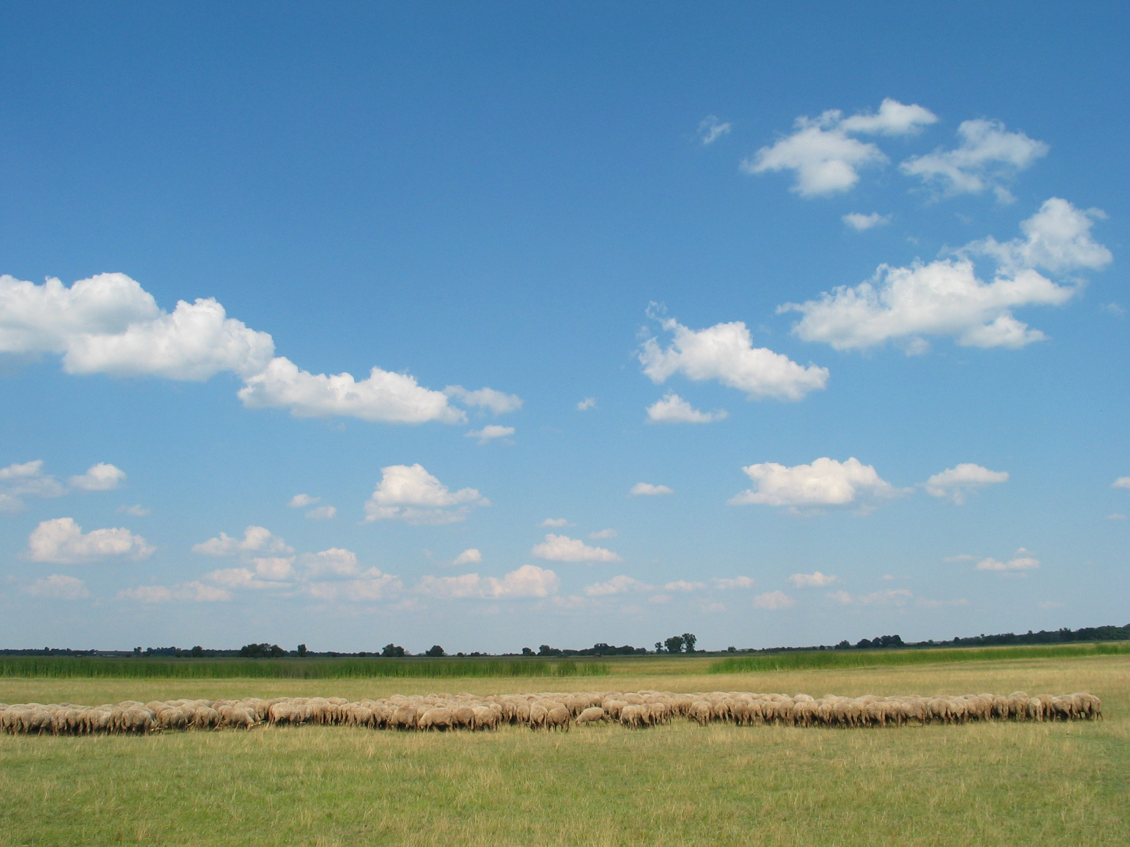 Hortobágy National Park, Hungary. Herd of Racka sheep.rk